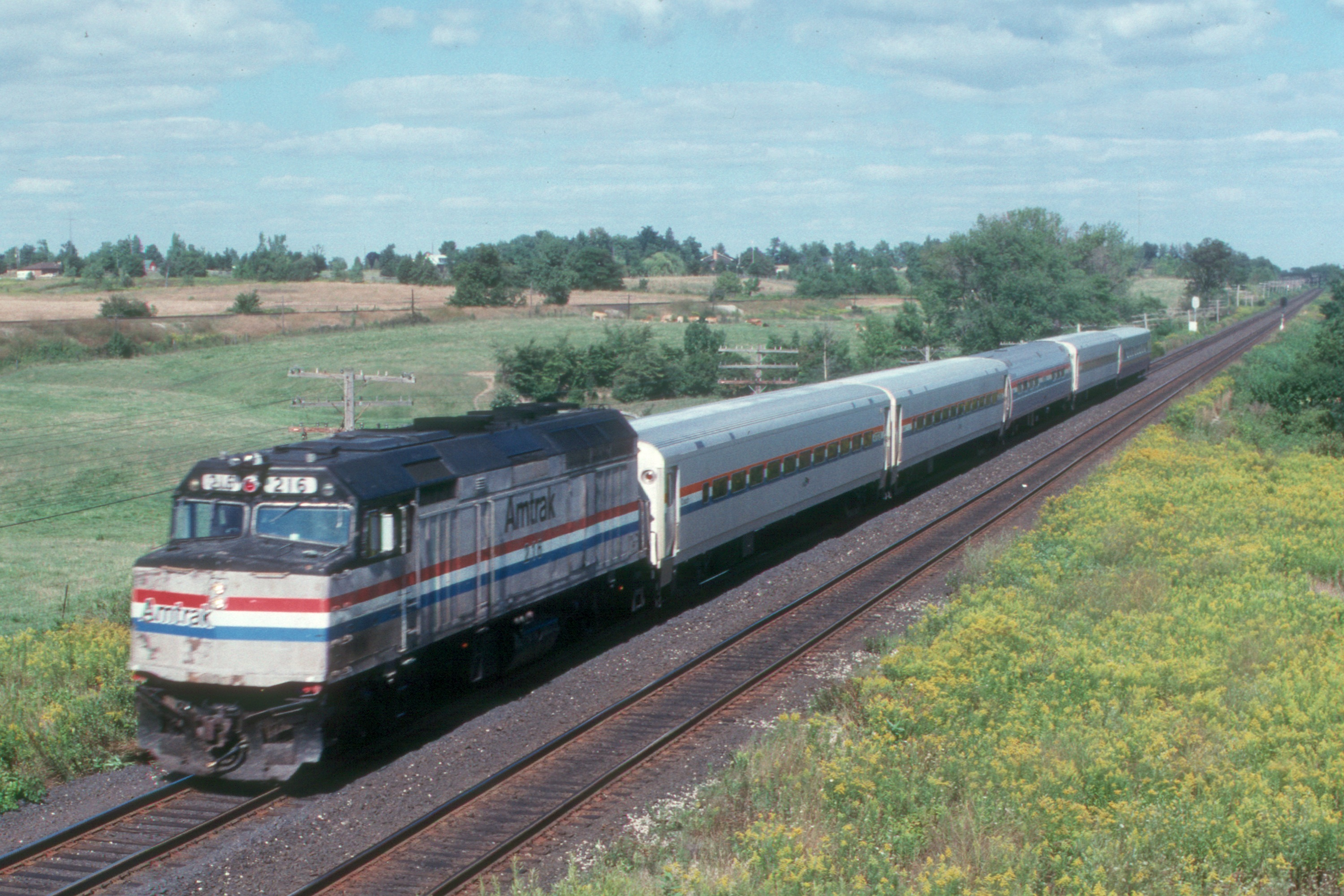 The International in Komoka, Ontario in September 1989